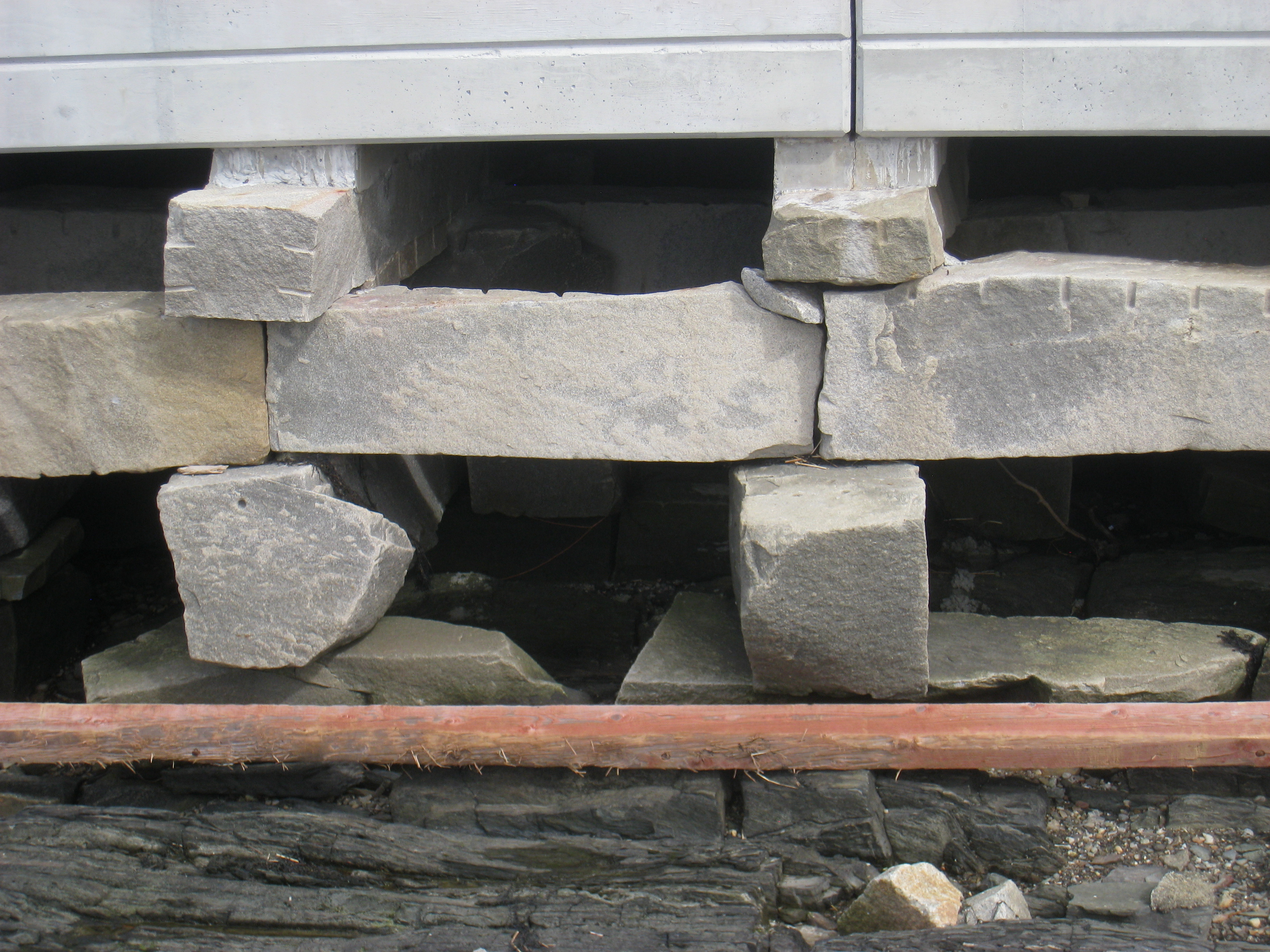 Bailey Island Bridge, Harpswell, Maine, USA. Photograph taken during bridge reconstruction.